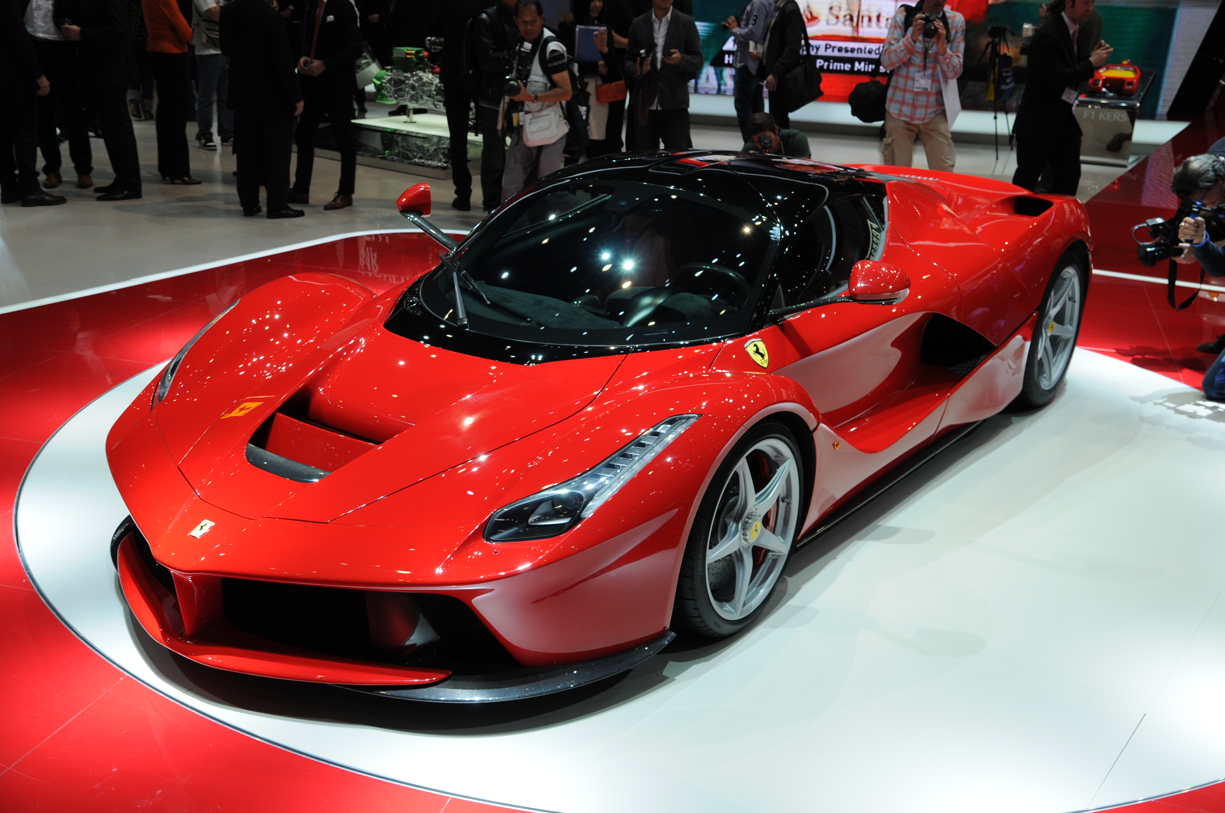 Ferrari LaFerrari at the Geneva Motor Show 2013 (photos taken on the first press day)